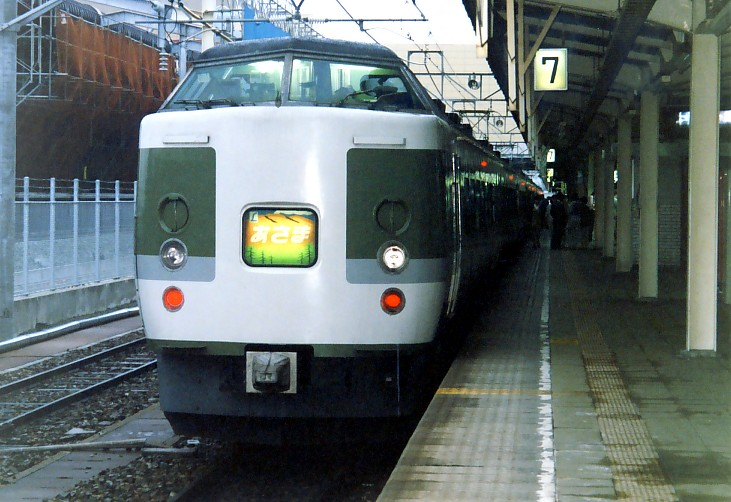 Asama 189-kei Train